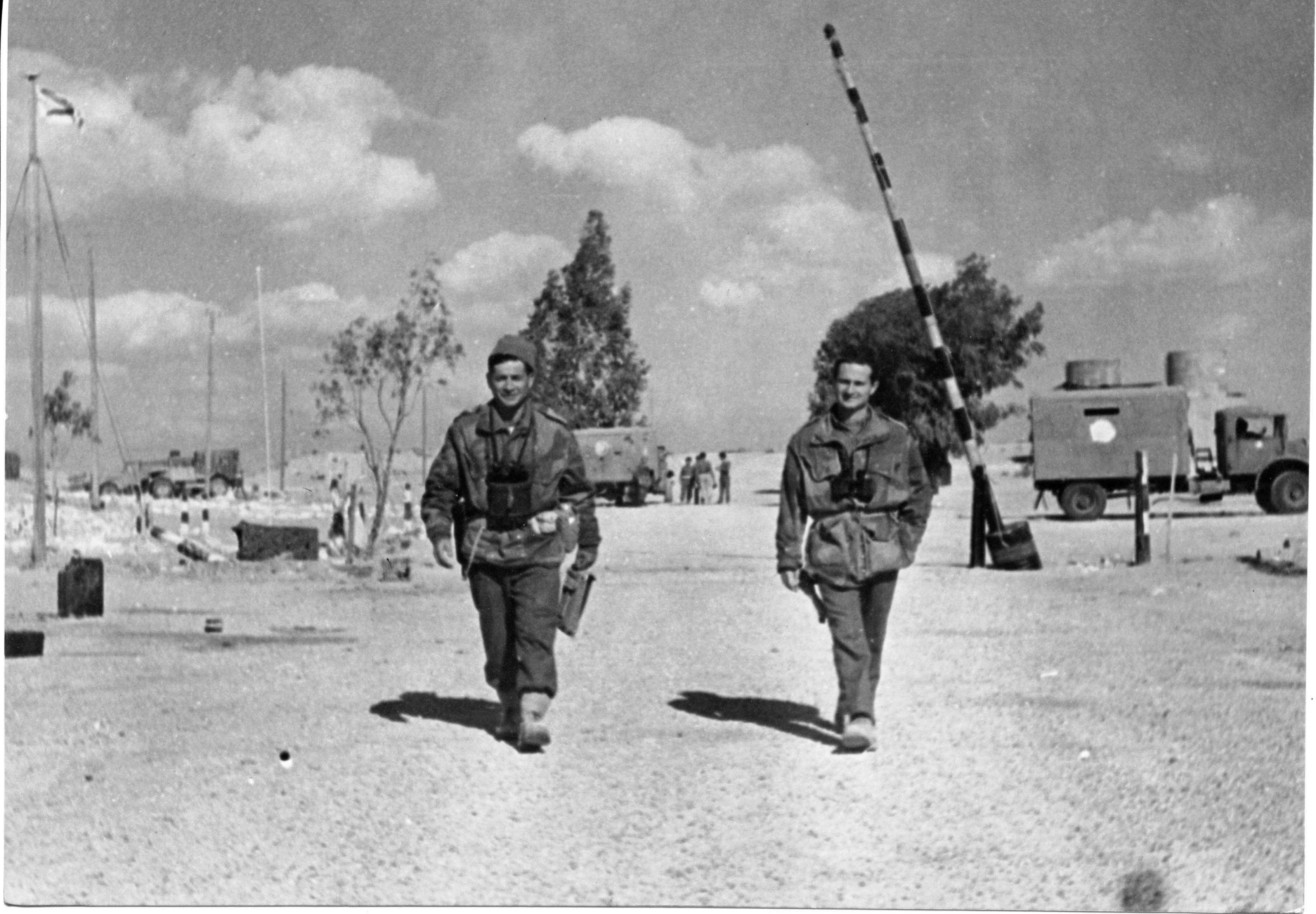 The Palmach, Israel Defense Forces